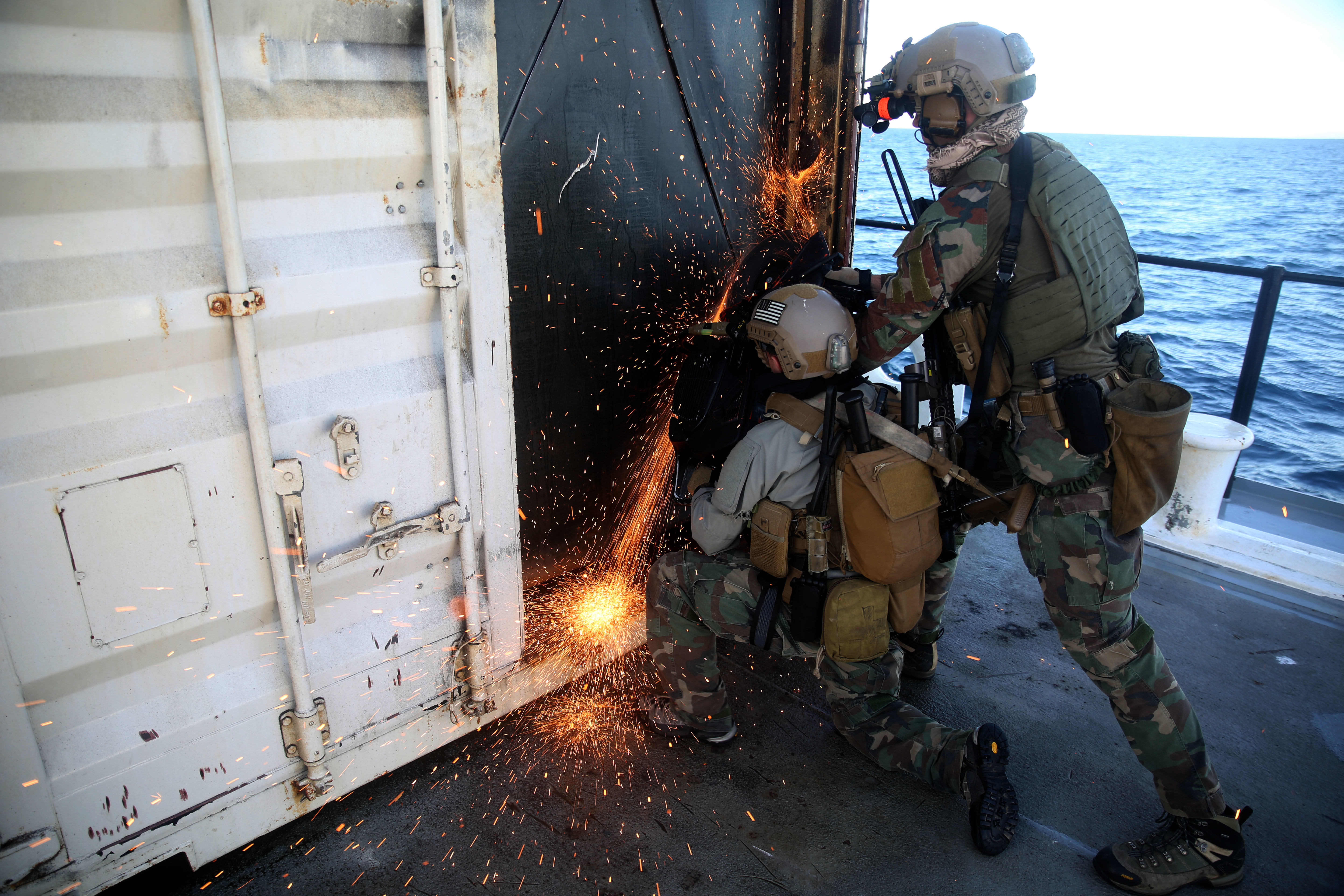 Critical Skills Operators with Bravo Company, 1st Marine Special Operations Battalion, U.S. Marine Corps Forces Special Operations Command, saw through a steel door during Visit, Board, Search and Seizure training near Naval Base Coronado, Calif., Jan. 15. (Official Marine Corps photo by Sgt. Donovan Lee/released)